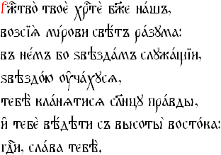 A screenshot of the text of Troparion of the Nativity in Church Slavonic language, written in the font Slovo.ttf.